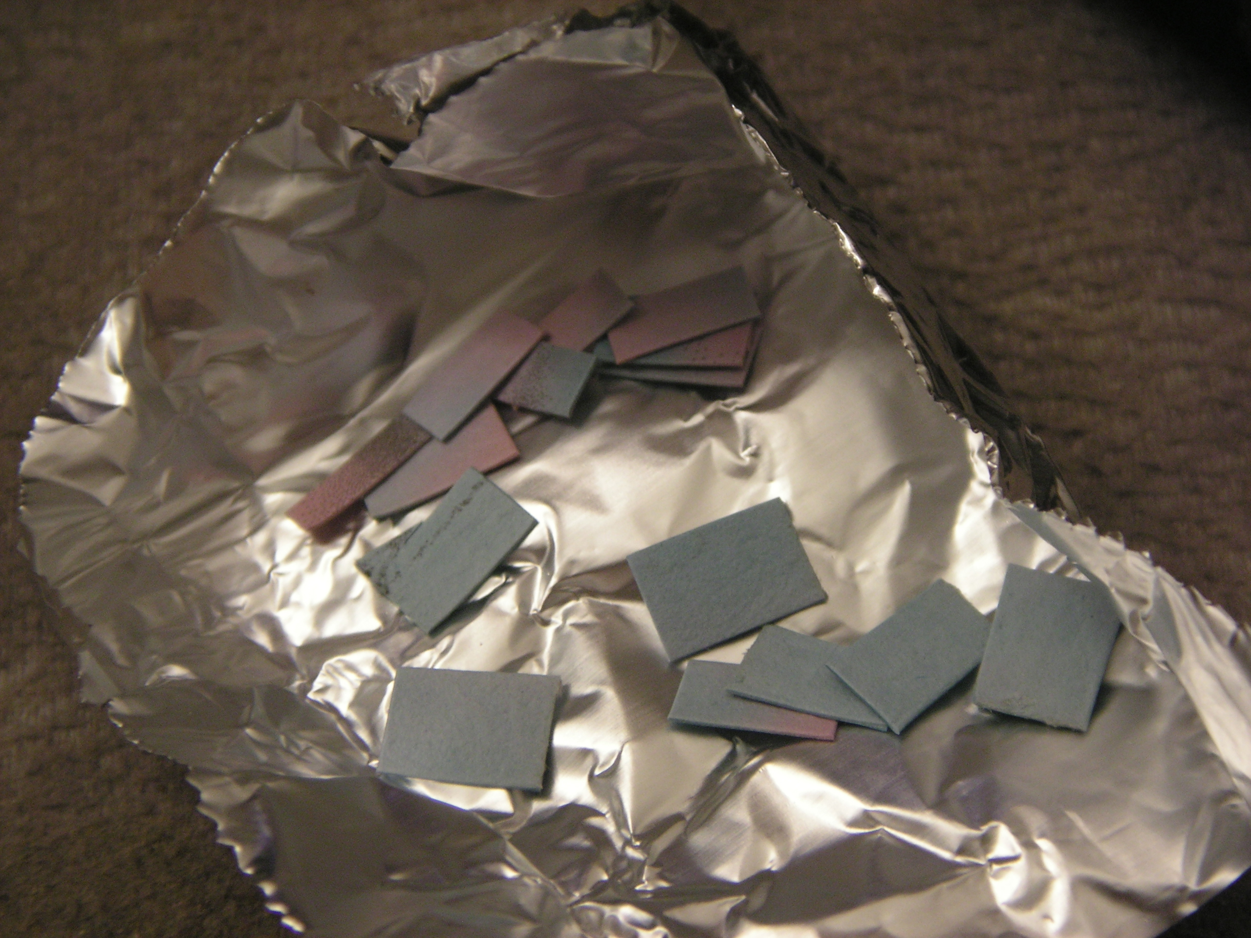 Tabs of acid